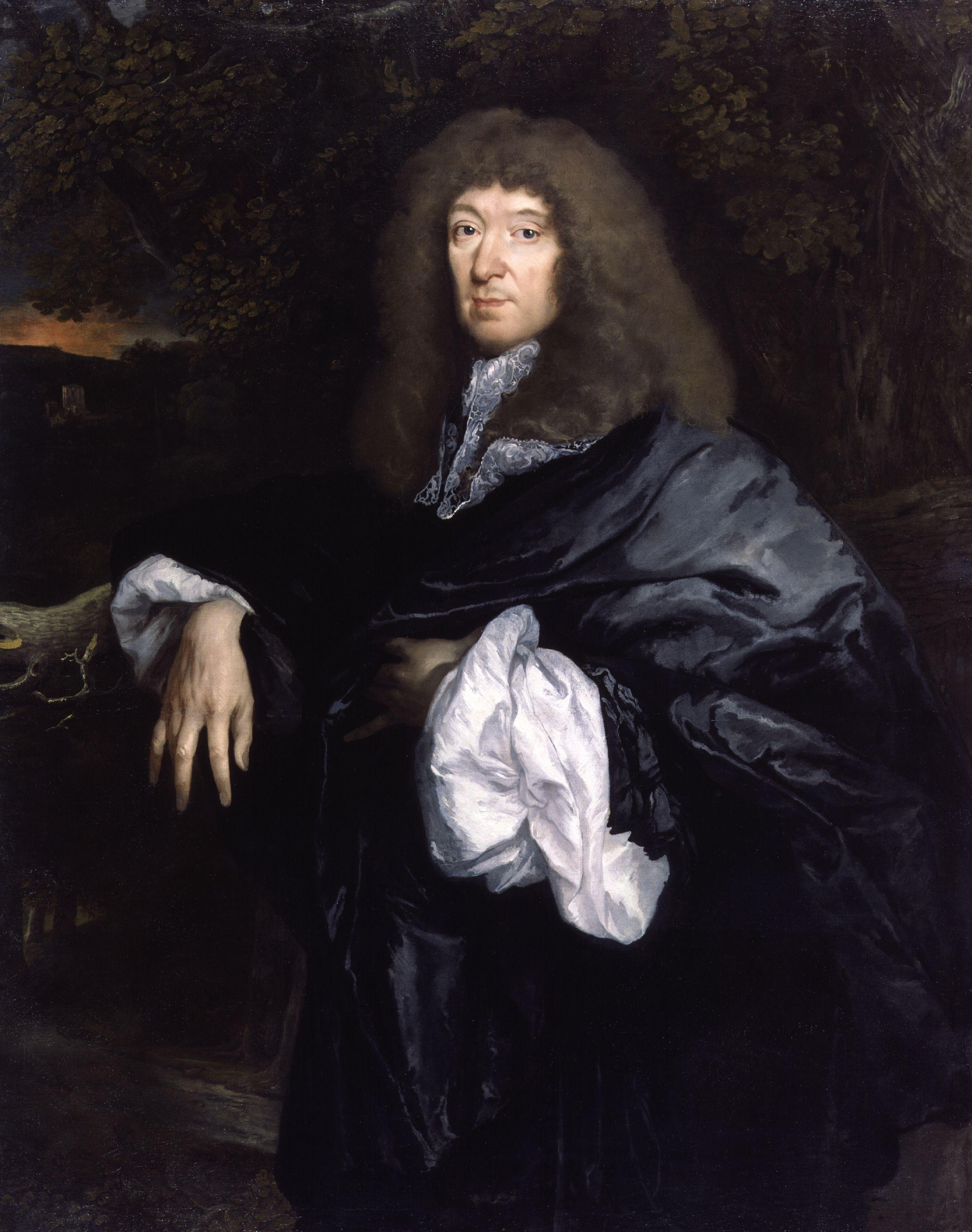 All images in this batch have a known author with unknown death date, but according to the NPG's website the author was floruit (known to be active) prior to 1859, and so is reasonably presumed dead by 1939.